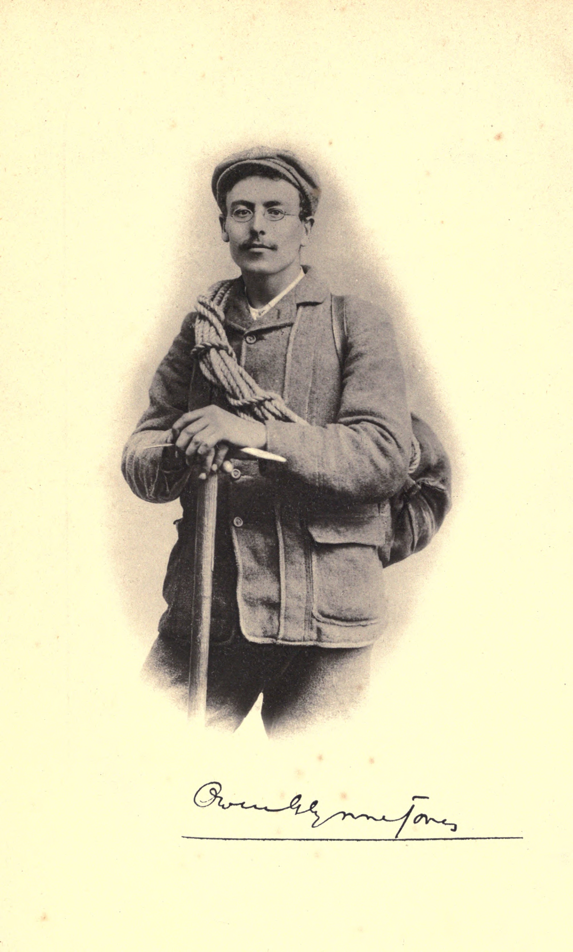 Portrait & Signature of Owen Glynne Jones from his book Rock-climbing in the English Lake District. Keswick, Cumberland County, England: G.P. Abraham & Sons, 1911